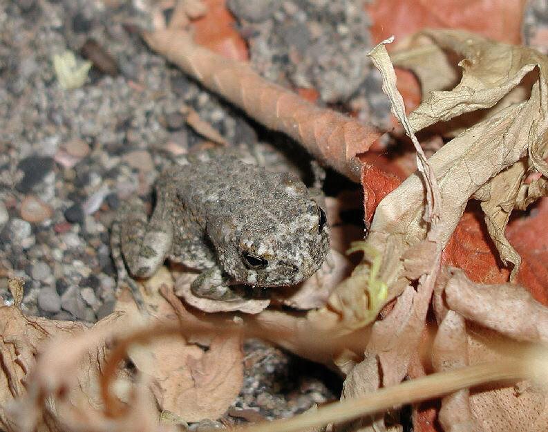 Photo by USFWS.